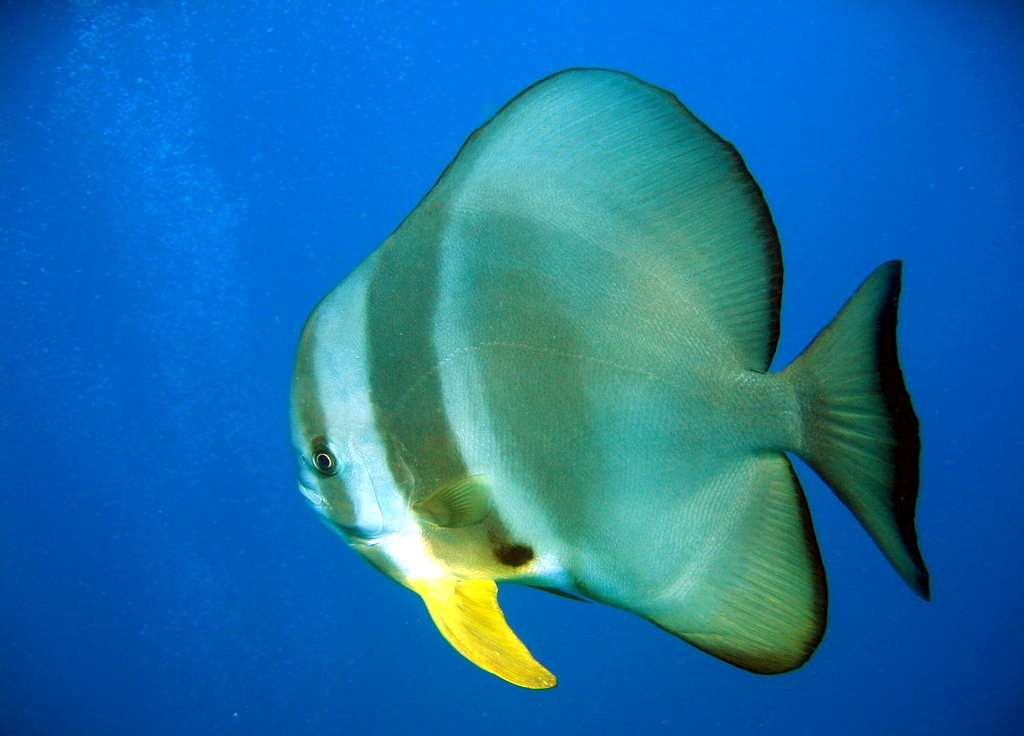 A Teira Batfish (Platax teira) in blue water. Fish Rock Cave, South West Rocks, NSW167564428